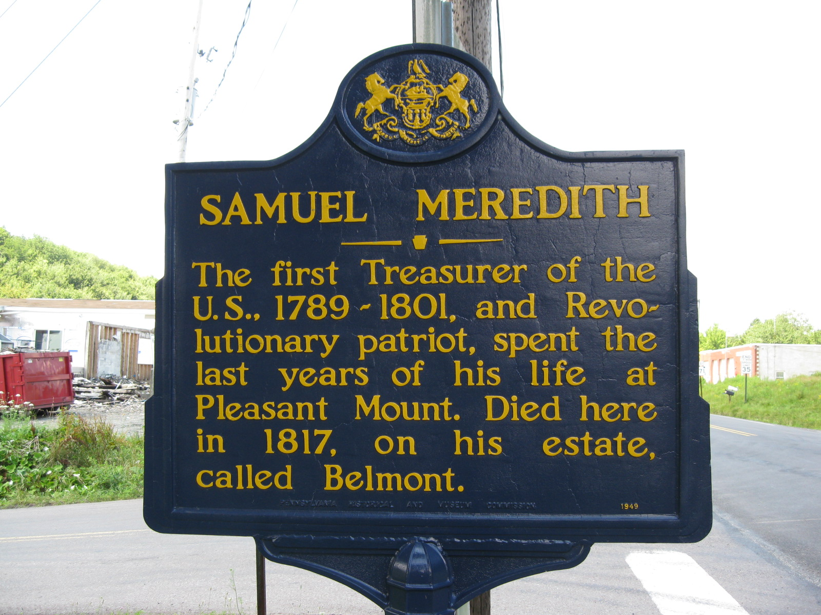 Sign commemorating estate of Samuel Meredith, second treasurer of the United States, who lived in Belmont Corners, Pennsylvania towards the end of his life.